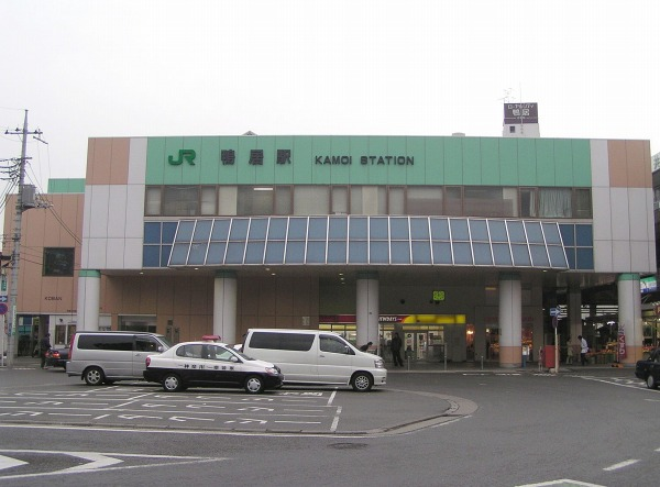 South Exit of Kamoi Station, on the Yokohama Line, Midori-ku, Yokohama, Kanagawa, Japan 鴨居駅